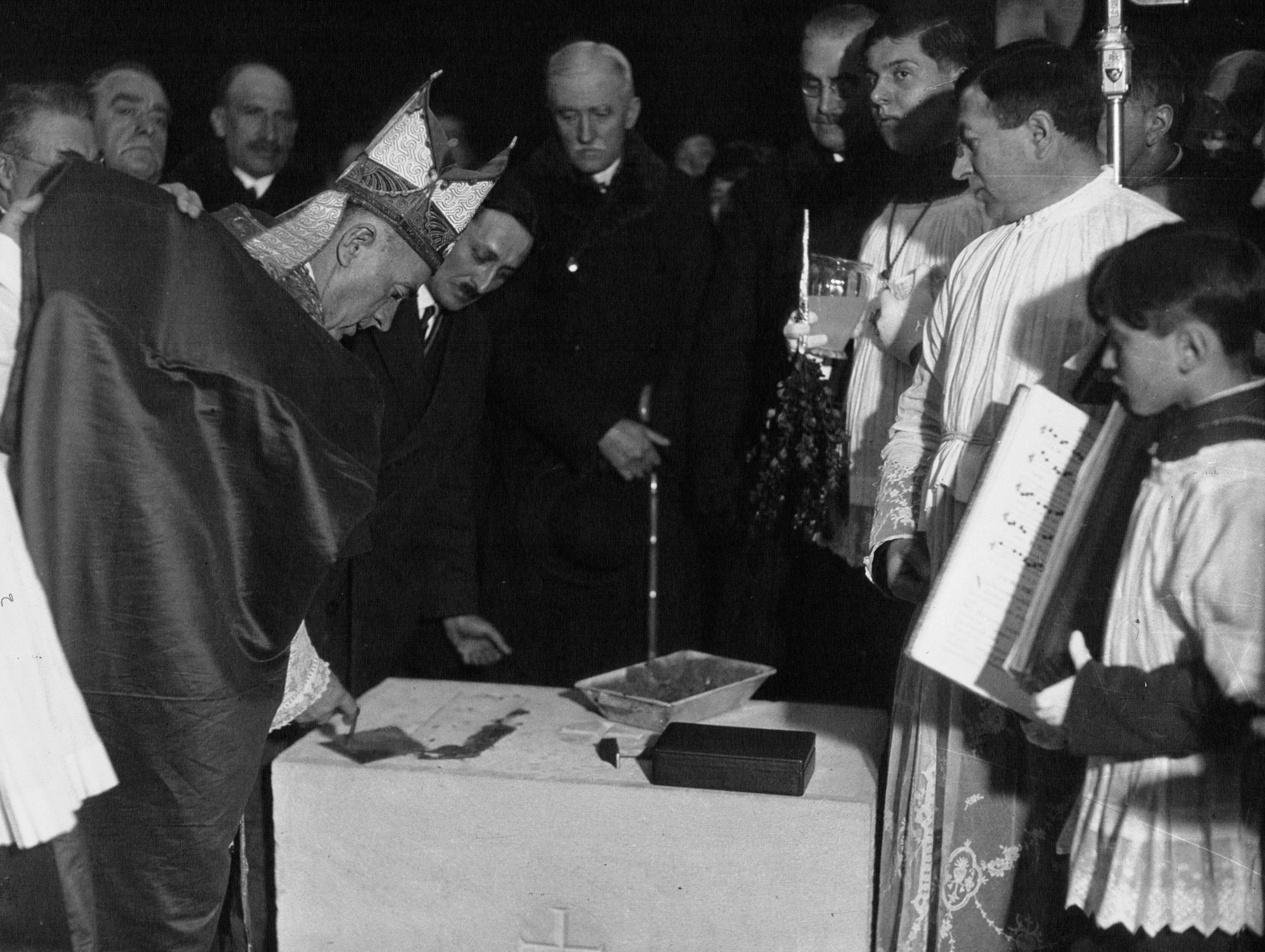 French cardinal Jean Verdier laying the foundation stone of the Saint-Pierre-de-Chaillot Church in Paris in 1933.